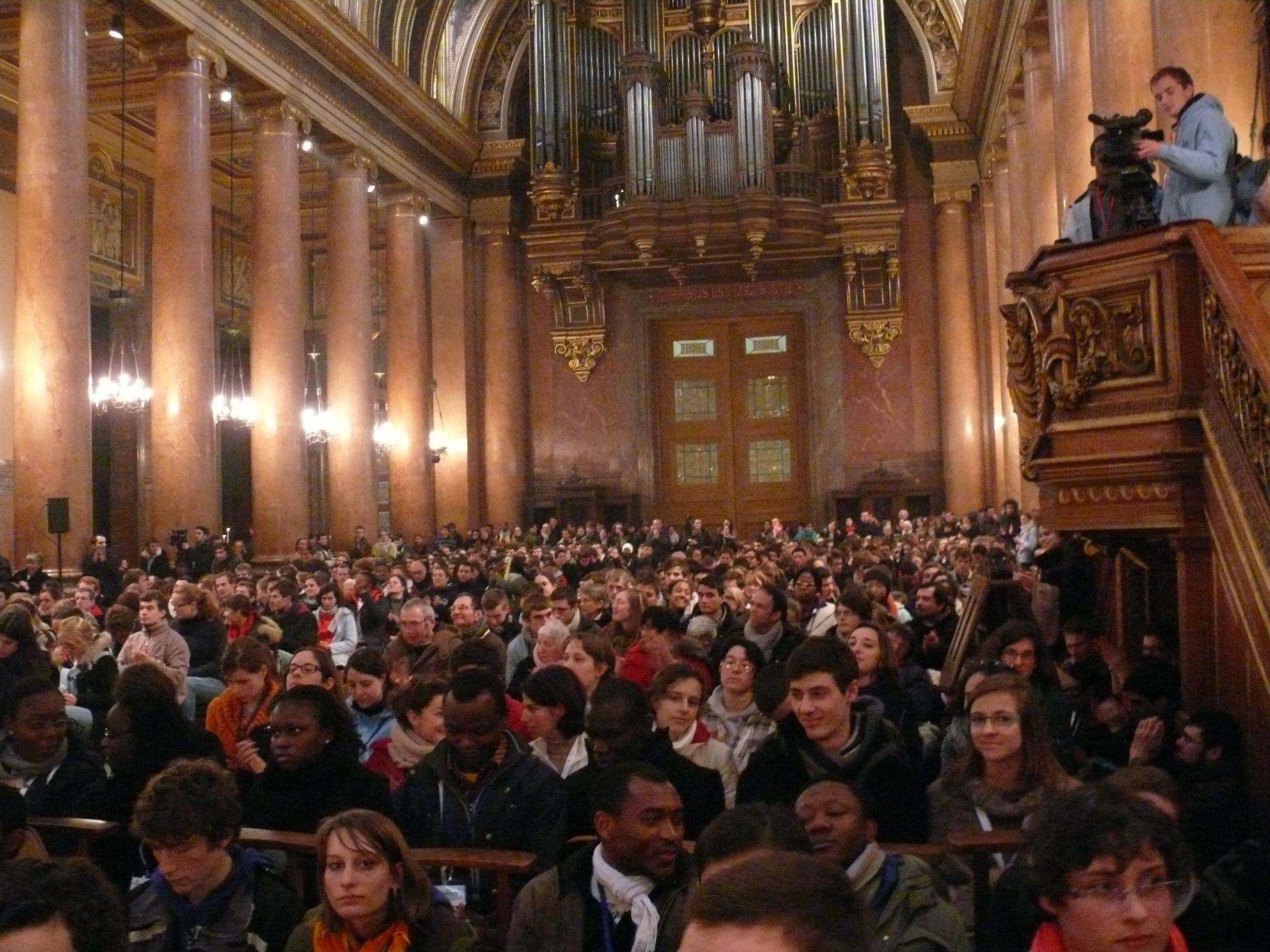 Ecclesia Campus 2012 in Rennes (Ille-et-Vilaine, Bretagne, France).